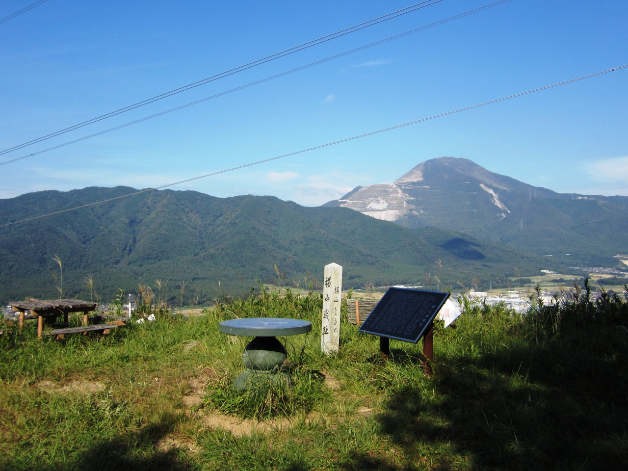 The Site of Yokoyama Castle in Nagahama, Shiga.